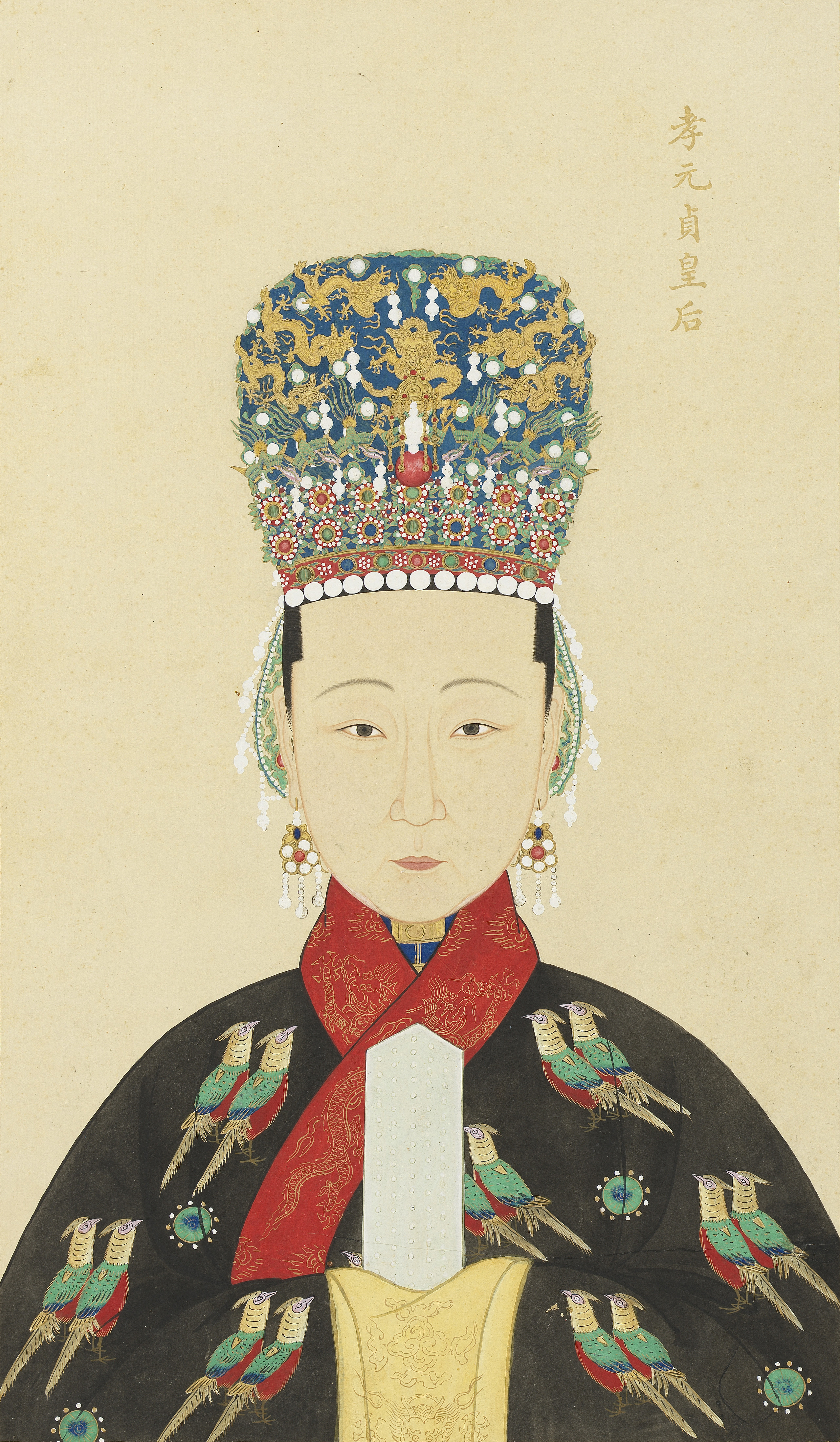 The Official Imperial Portrait of Ming Dynasty's Empress